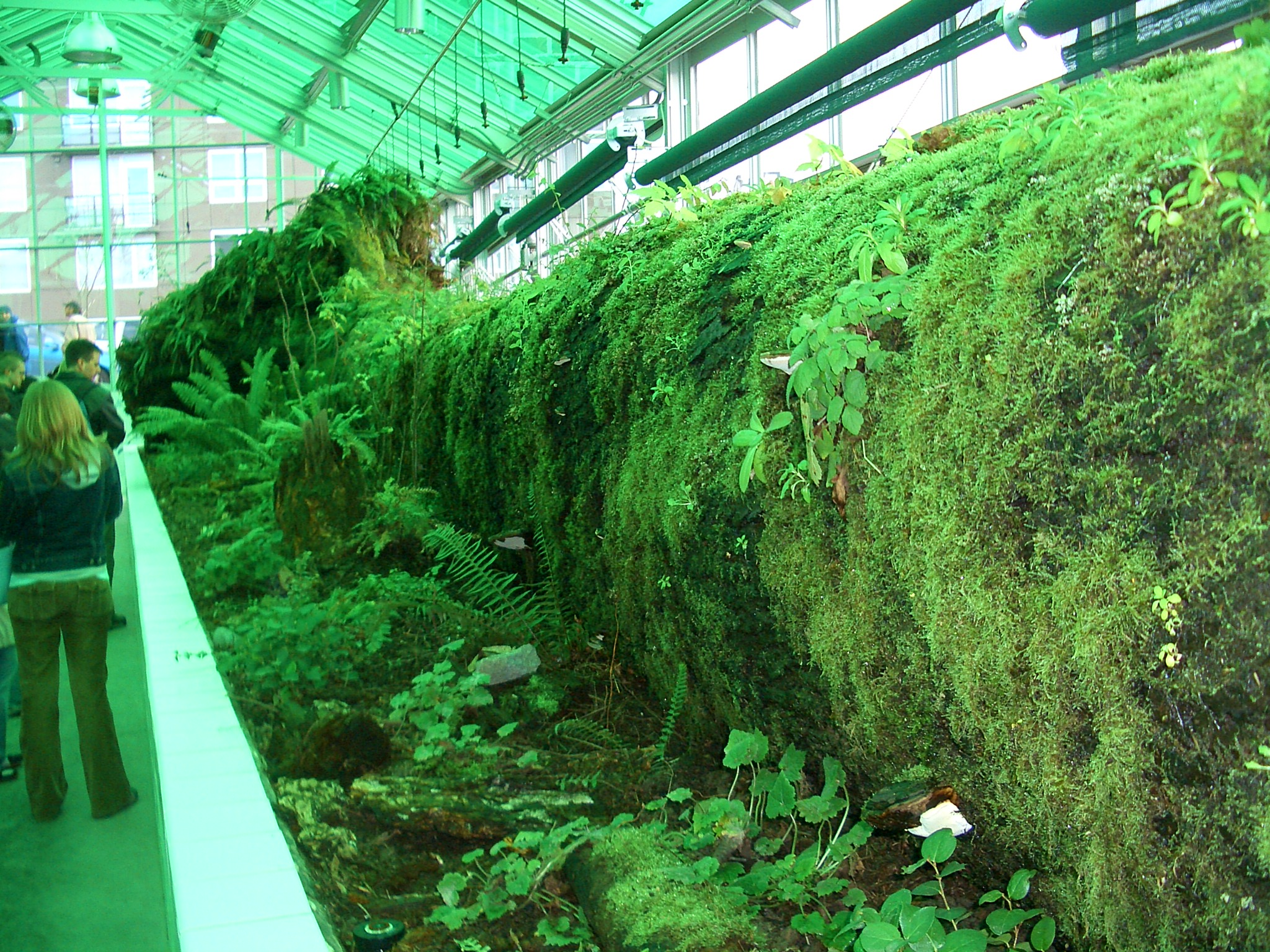 At the grand opening of Olympic Sculpture Park. Inside Neukom Vivarium.